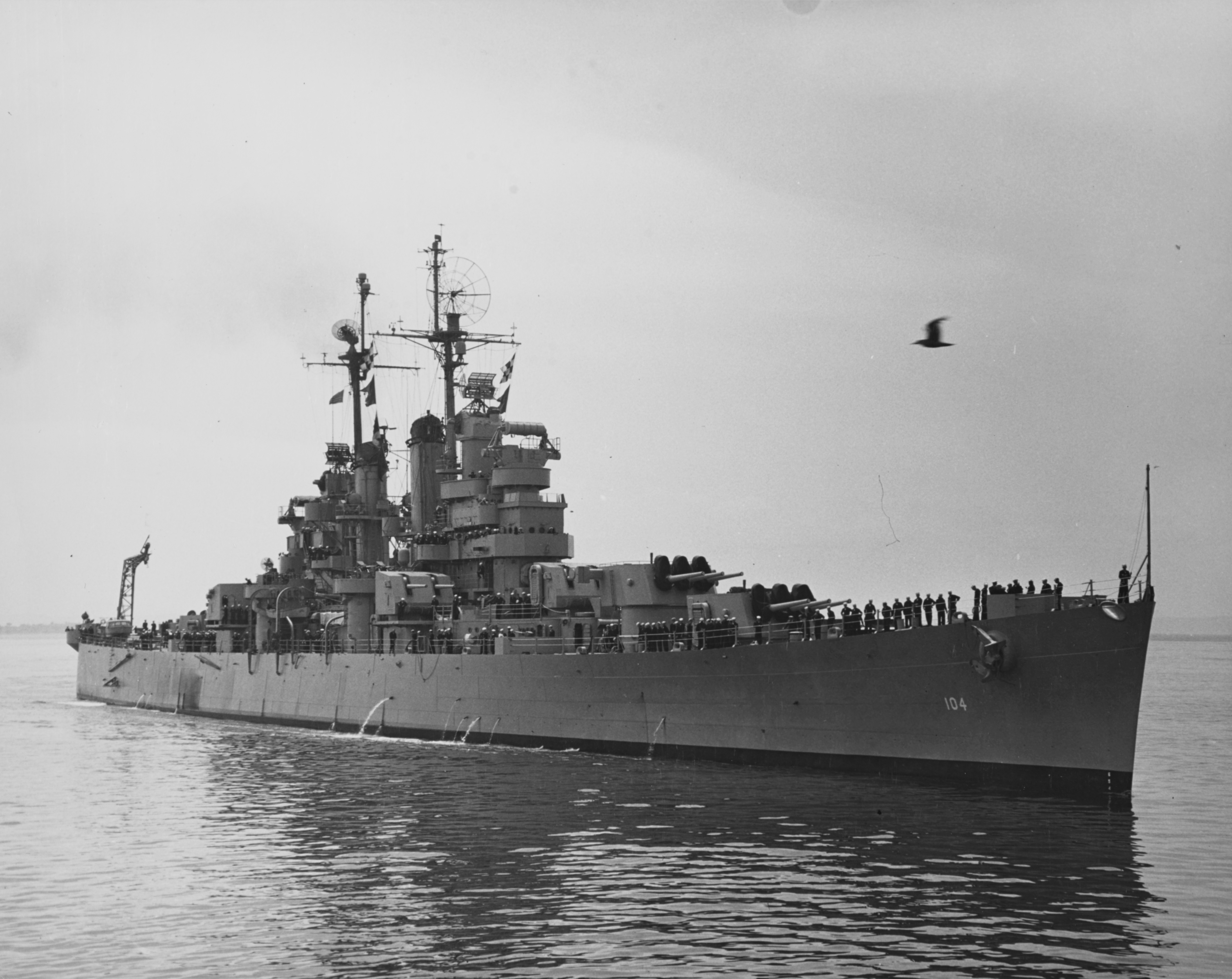 The U.S. Navy light cruiser USS Atlanta (CL-104) leaves Seattle, Washington (USA), for a Naval Reserve training cruise to Alaska, 27 June 1948.